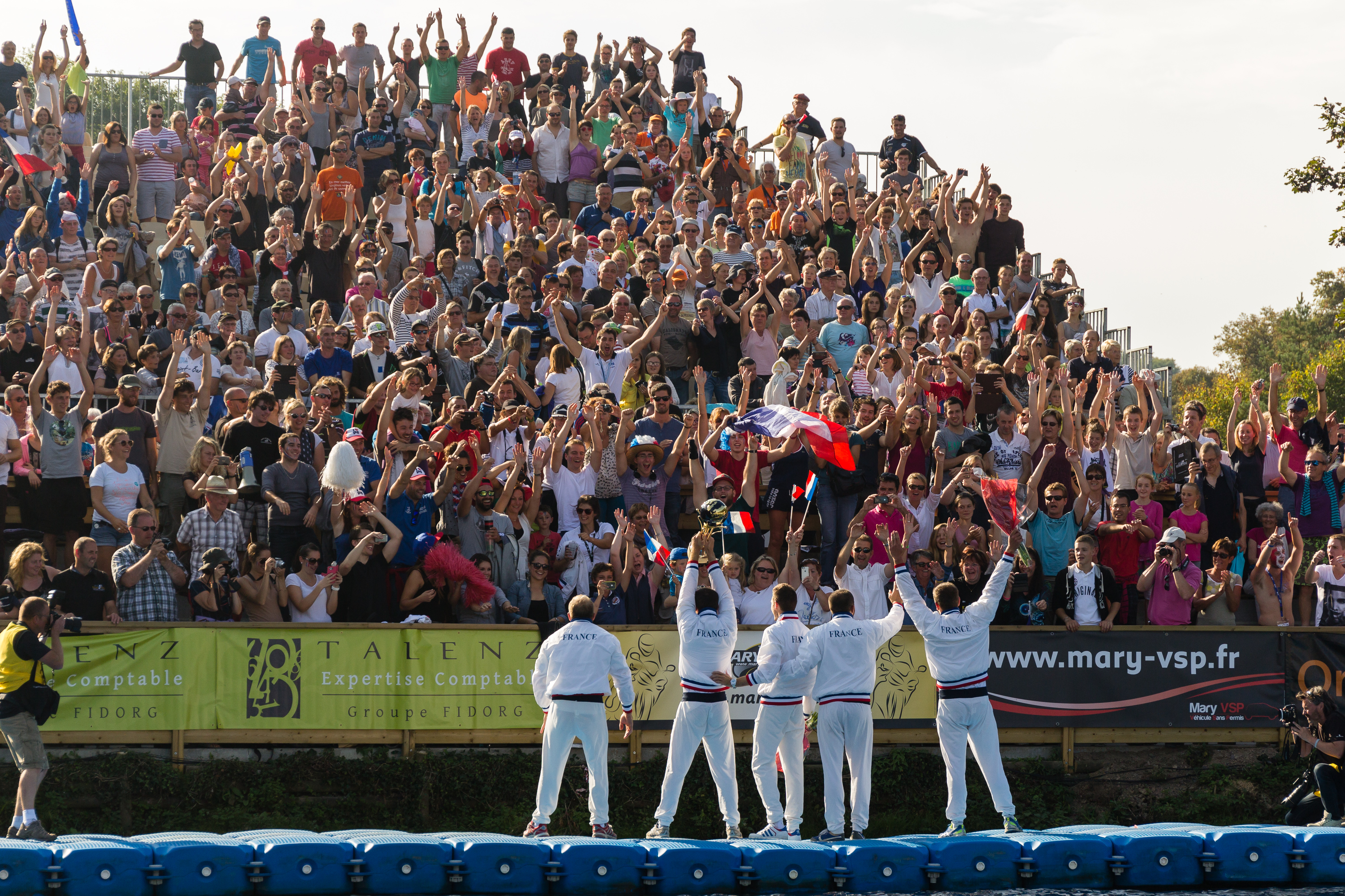 International canoe federation 2014 world championships. French men team, gold medal.